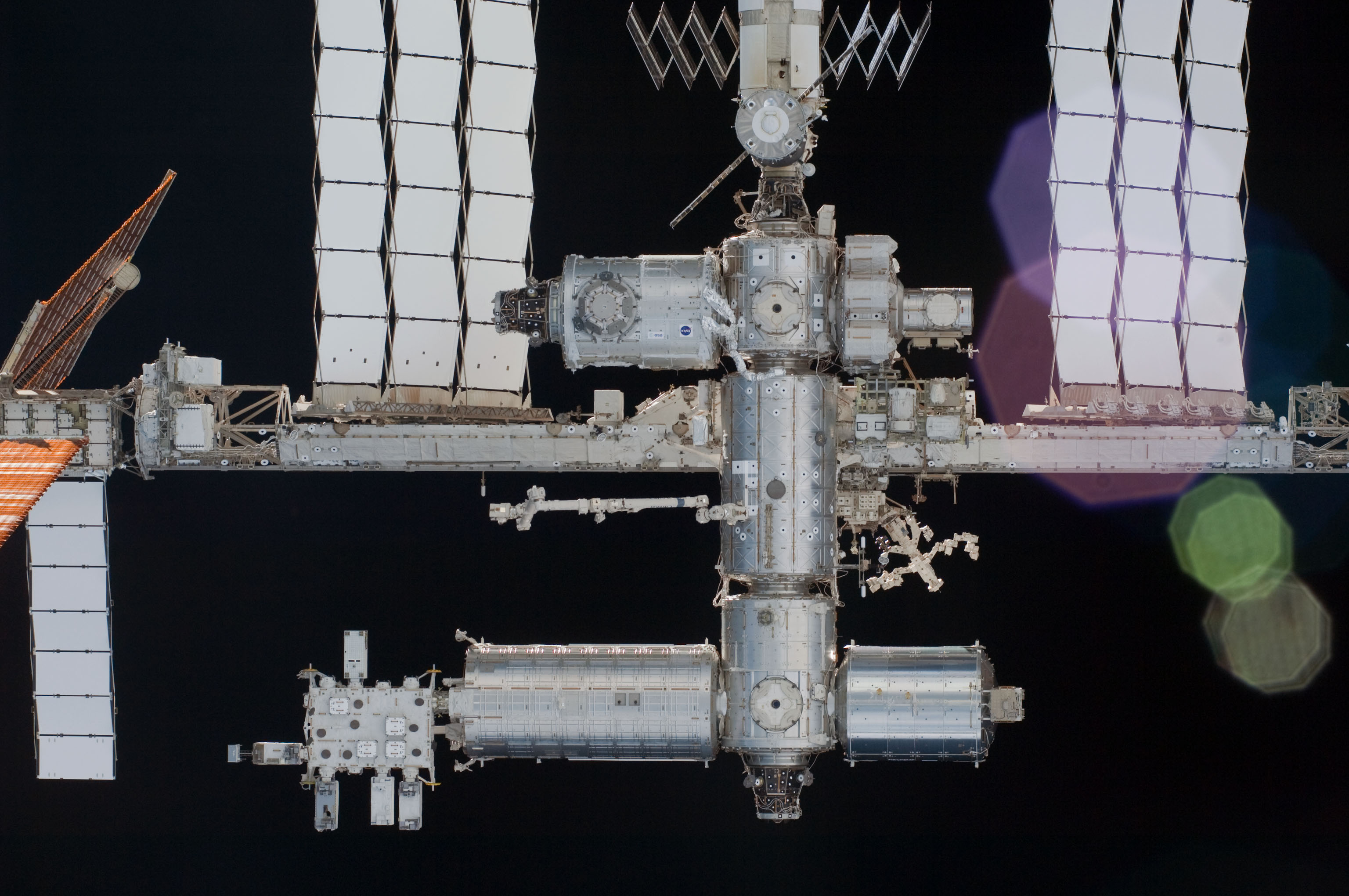 A close-up view of a portion of the International Space Station is featured in this image photographed by an STS-130 crew member on space shuttle Endeavour after the station and shuttle began their post-undocking relative separation. Undocking of the two spacecraft occurred at 7:54 p.m. (EST) on Feb. 19, 2010. The newly-installed Tranquility node and Cupola are visible at top center.